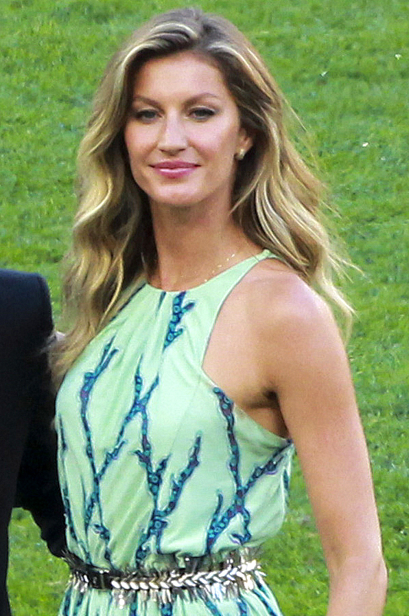 The final match of World Cup 2014 between Germany and Argentina 2014-07-13